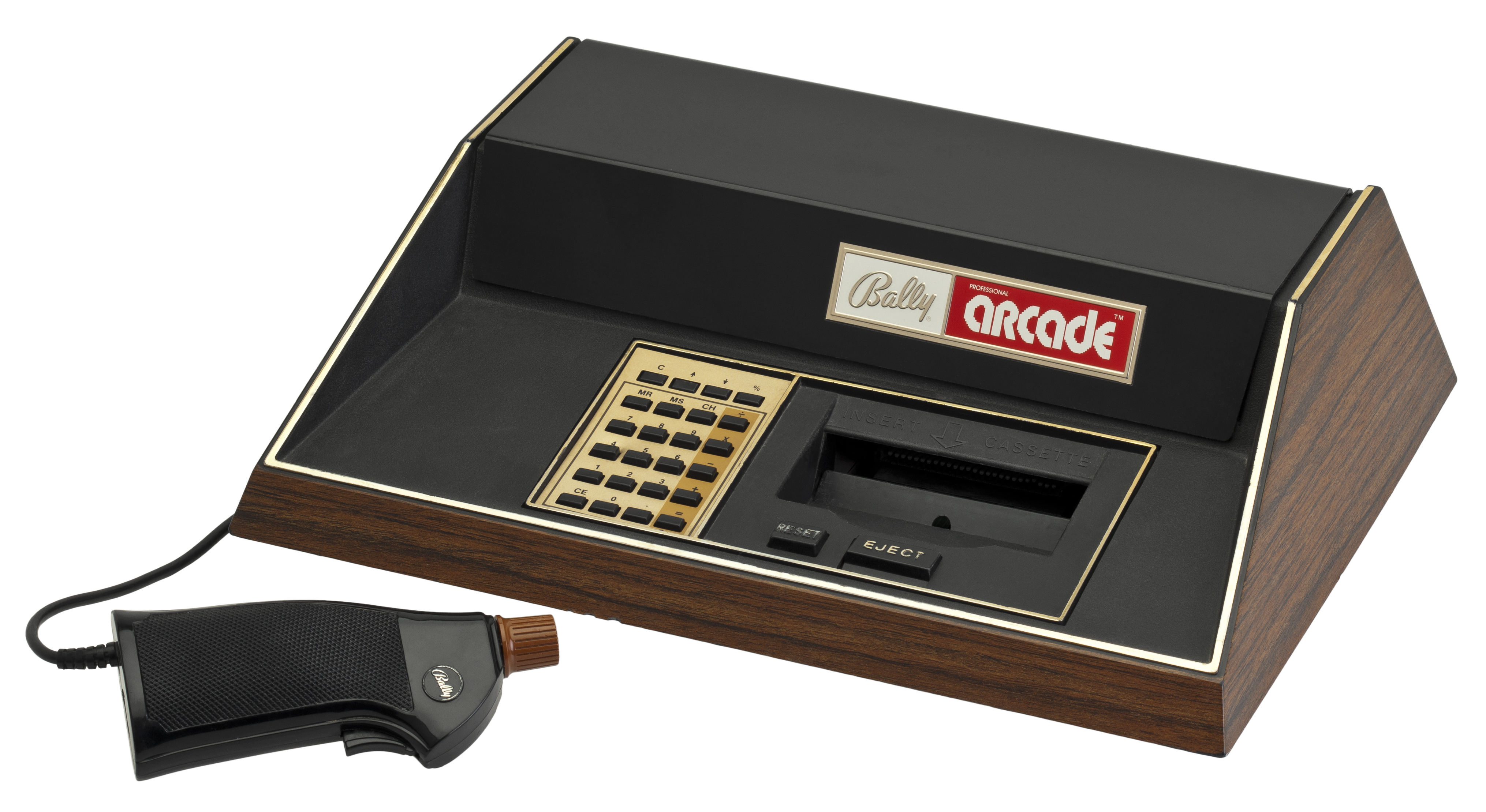 The Bally Professional Arcade, one of the many names of a 2nd generation video game console released by Bally in the late '70s and early '80s.